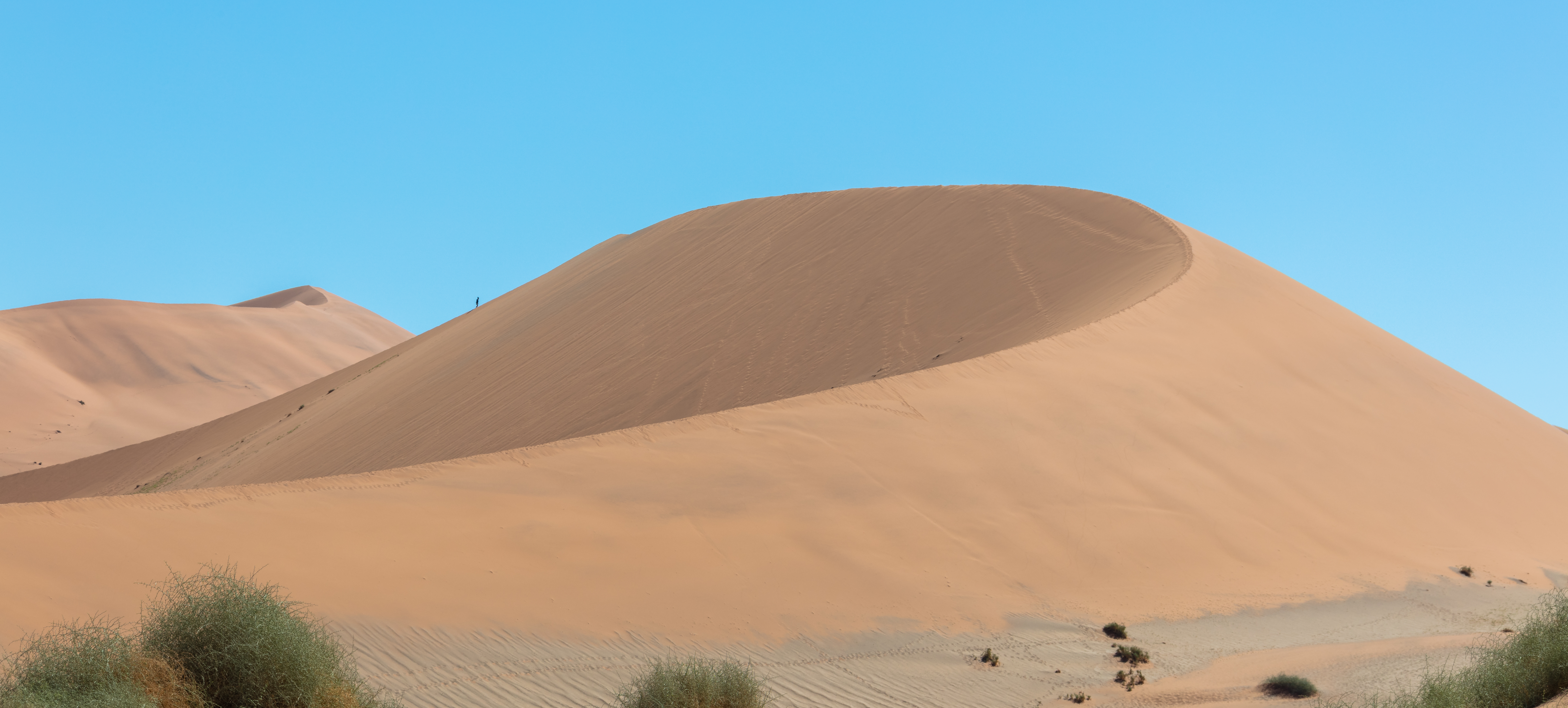 Big Mamma Dune, Sossusvlei, Namibia